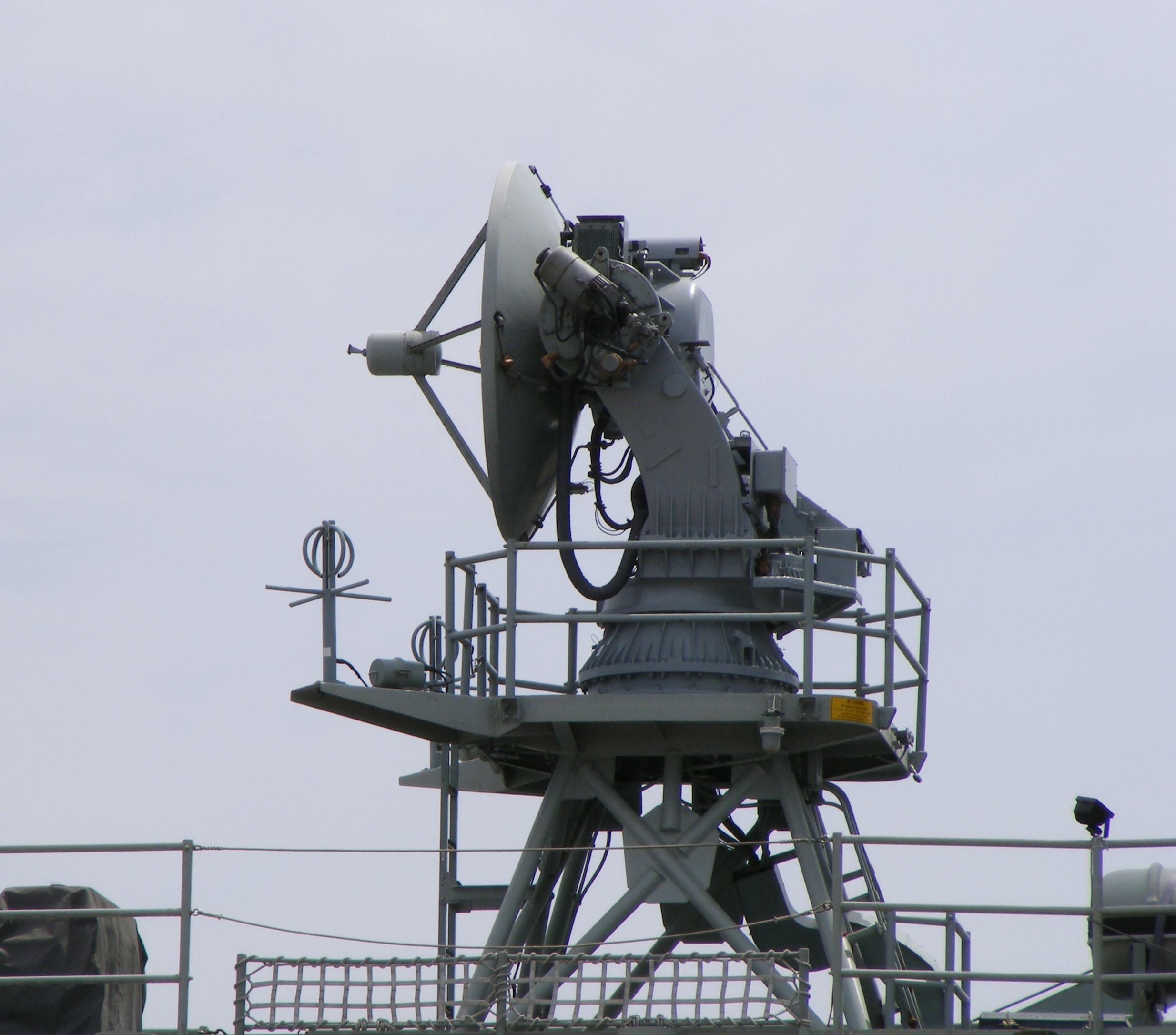 The gun radar of HMAS Adelaide (FFG 01), just on the bow side of the rapid fire 76mm gun. Photo taken on an open day at Dock 2, Port Adelaide, South Australia